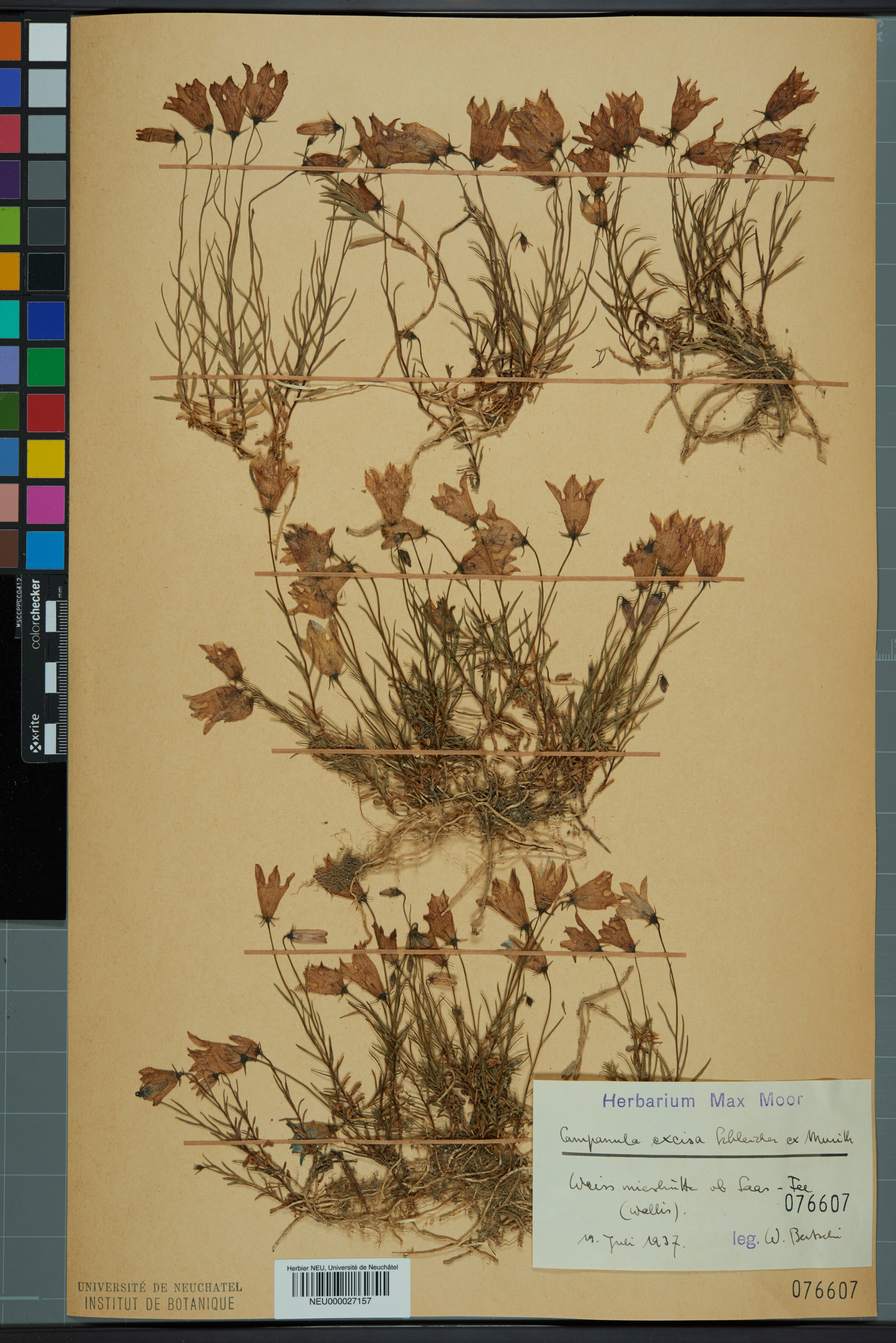 Dried pressed specimen of Campanula excisa